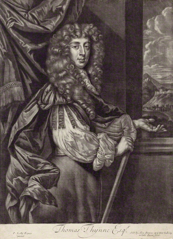 Thomas Thynne (1648-1682)